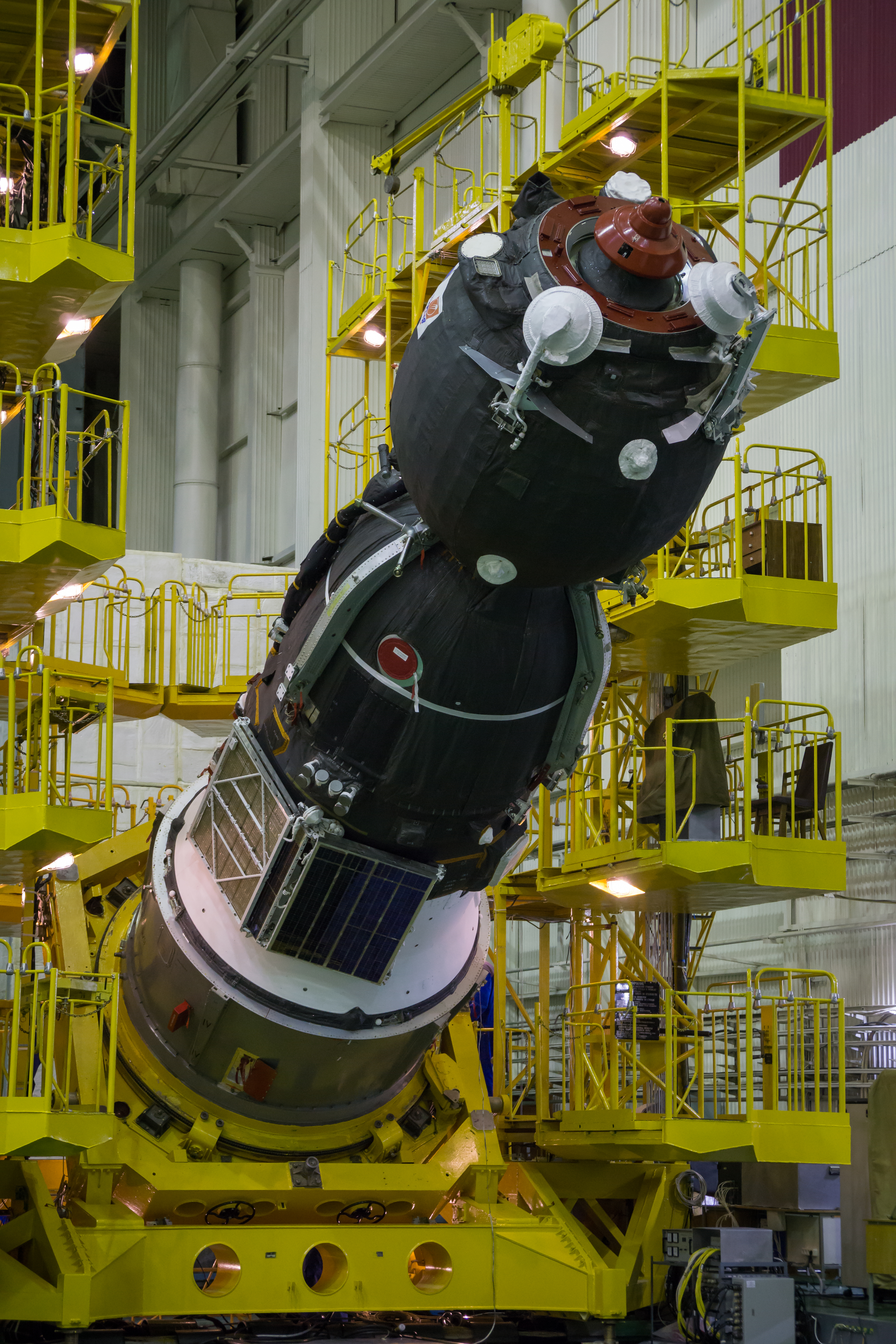 The Soyuz MS-02 spacecraft is lowered from a vertical position prior to being encapsulated in its fairing on Thursday, Sept. 15, 2016 at the Baikonur Cosmodrome in Kazakhstan. Expedition 49 flight engineer Shane Kimbrough of NASA, flight engineer Andrey Borisenko of Roscosmos, and Soyuz commander Sergey Ryzhikov of Roscosmos are scheduled to launch to the International Space Station aboard the Soyuz MS-02 spacecraft from the Baikonur Cosmodrome on September 24 Kazakh time.